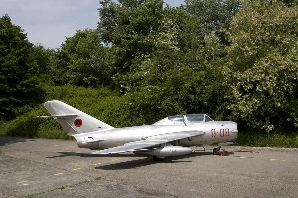 FT5 at Tirana Airport. The twinseat version of the F5 (MiG-17).